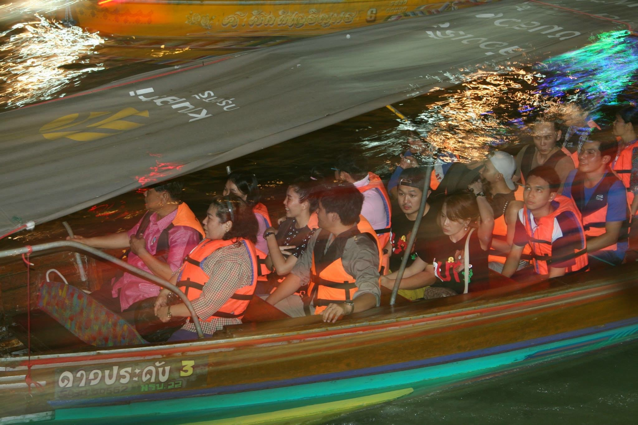 night